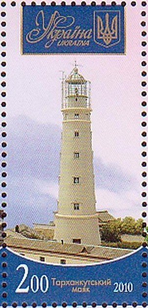 Lighthouse Tarkhankutskyi. Miniature sheet "Lighthouses in Ukraine" (2010)